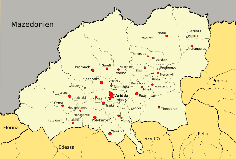 Administrative divisions of Almopia municipality, Greece